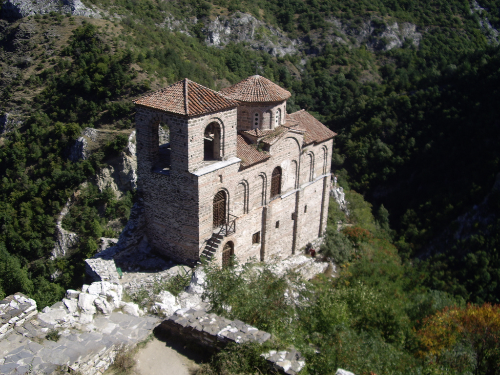 The Asenova krepost near Asenovgrad, Bulgaria (See Wikipedia article) with the Rhodope Mountains in the background.